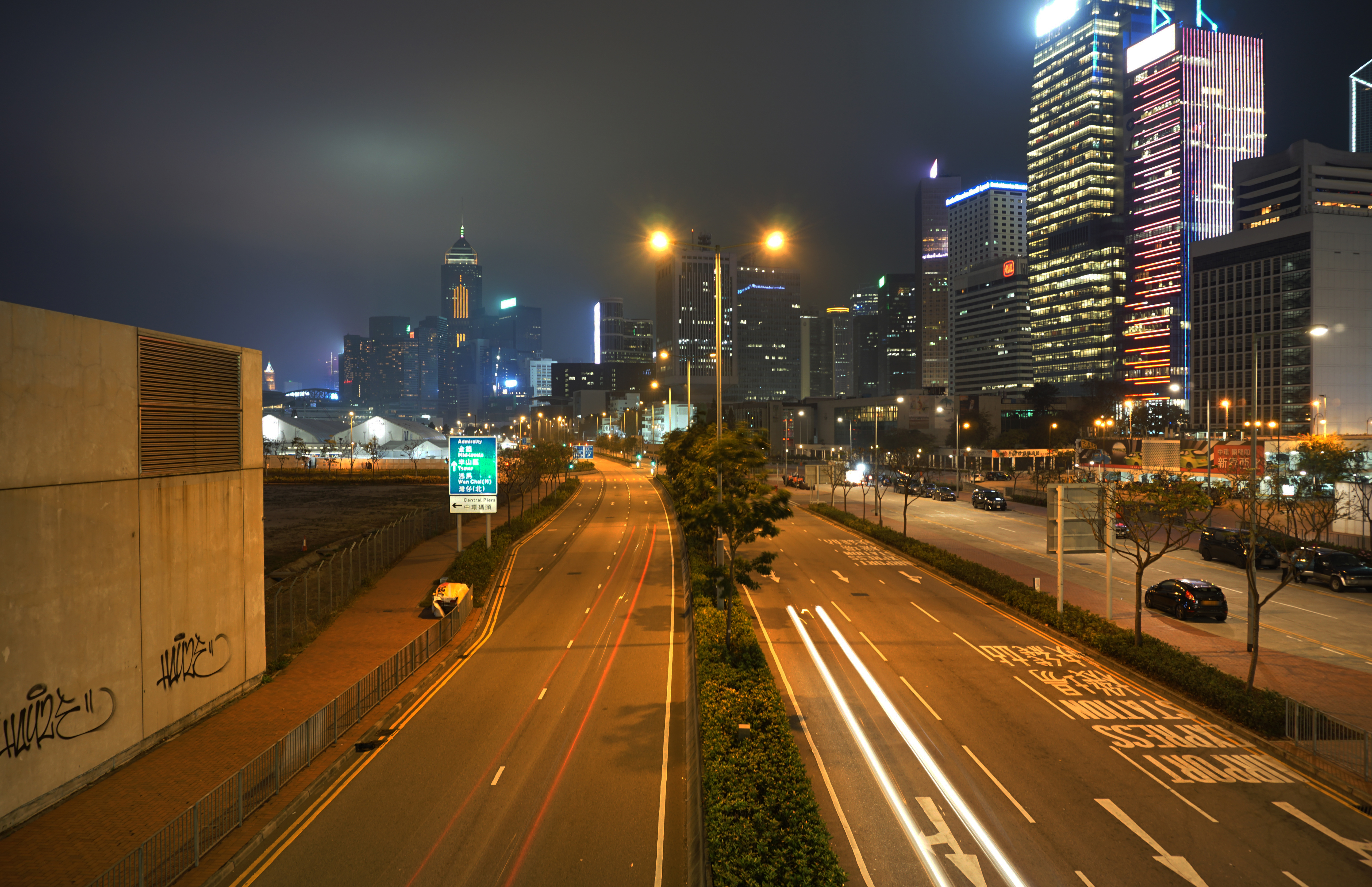 Lung Wo Road in Central, Hong Kong.